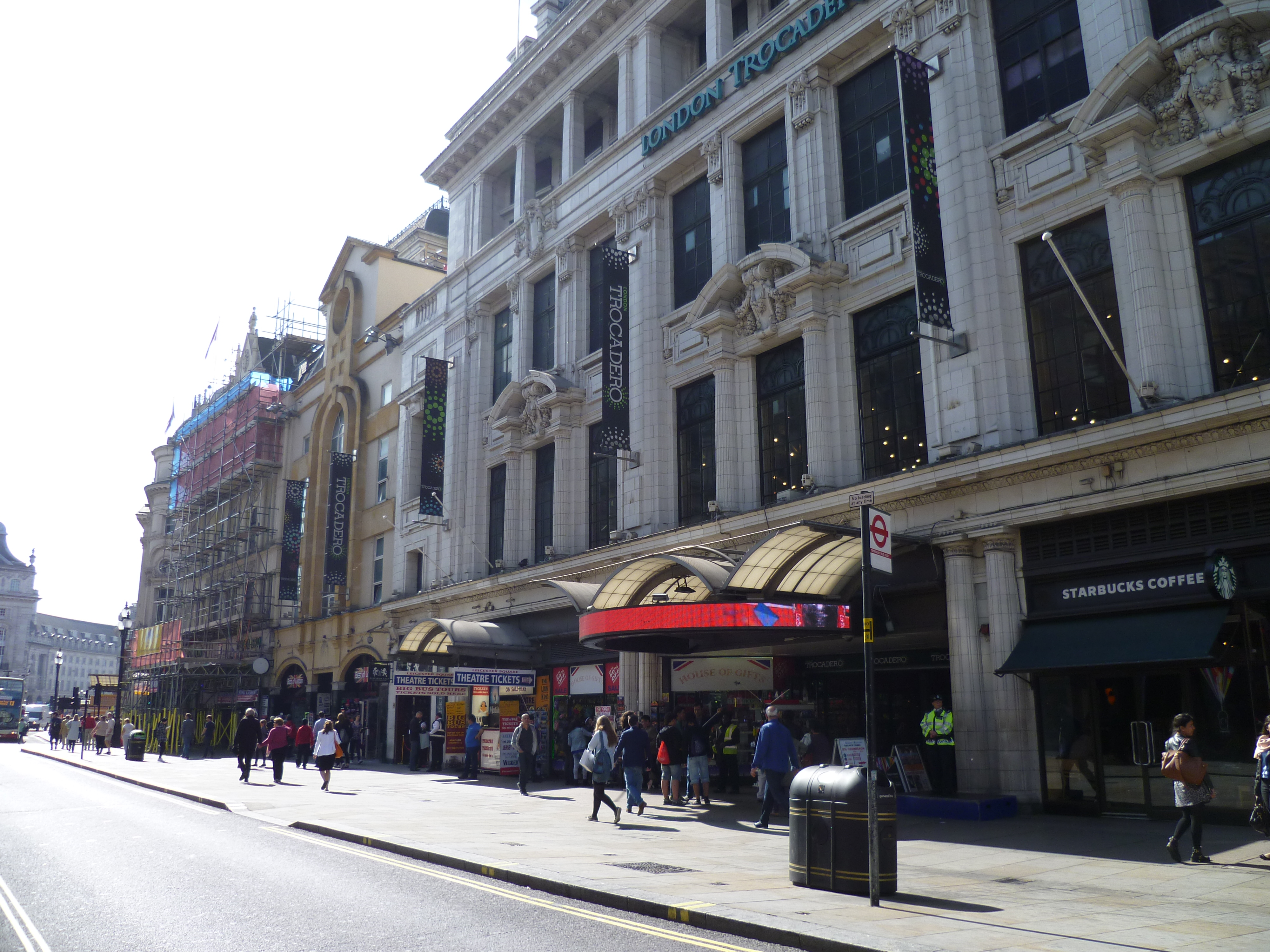 London